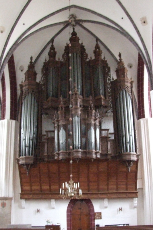 Organ of St. Stephan, Tangermünde, built by Scherer